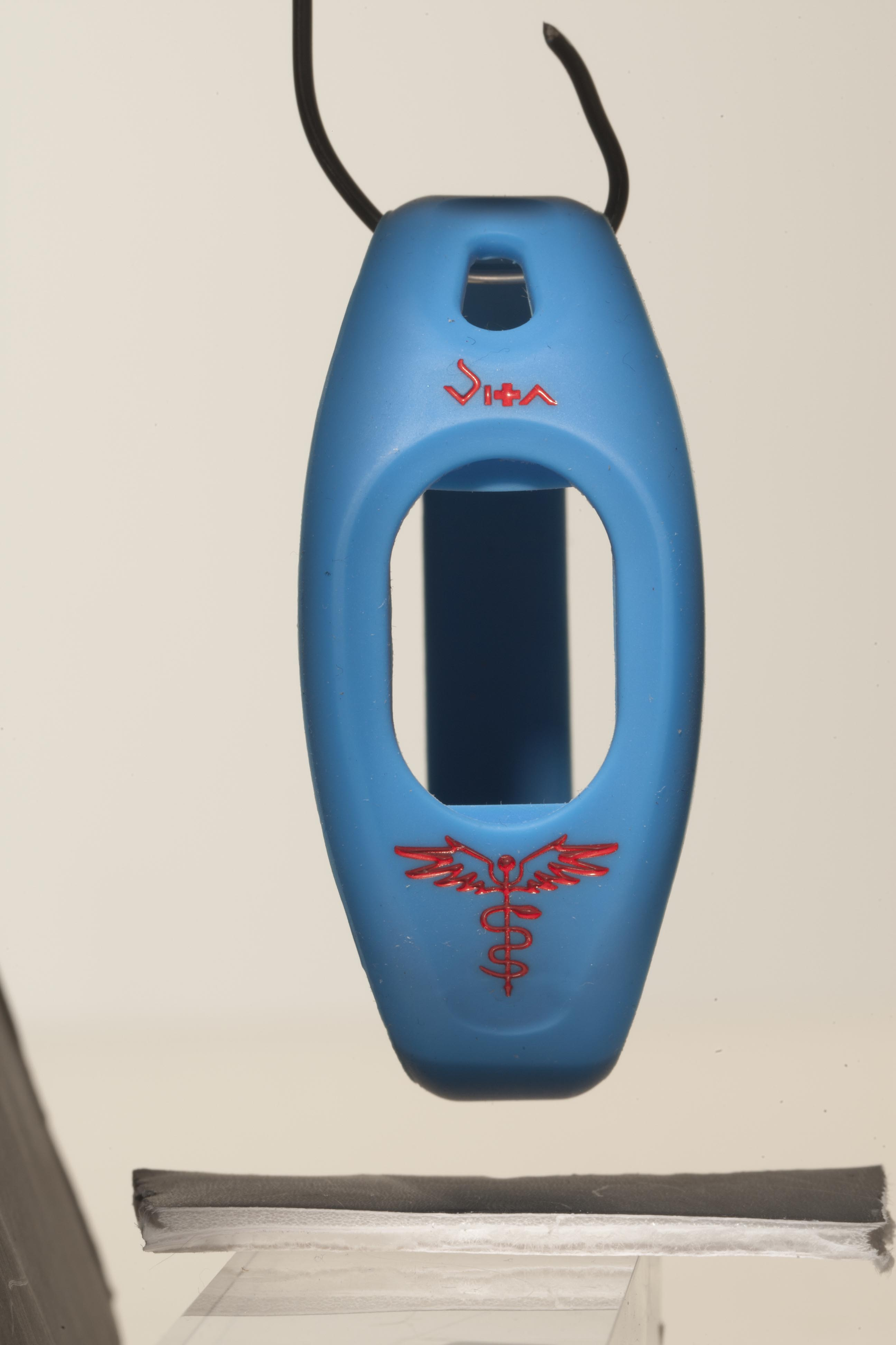 A blue VITAband for display